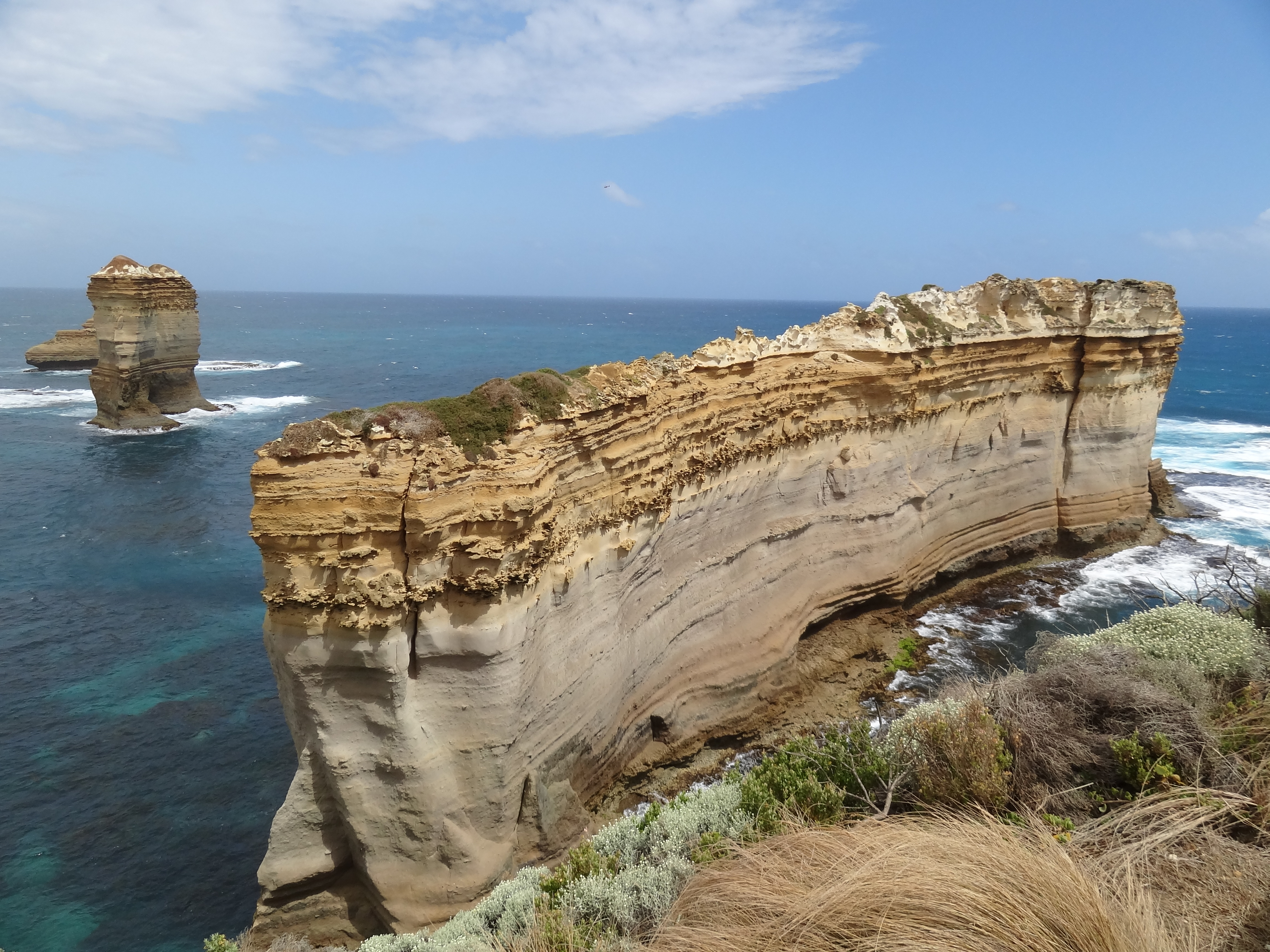 The Razorback, near the Loch Ard Gorge in Victoria, Australia. Accessible from the great ocean road.